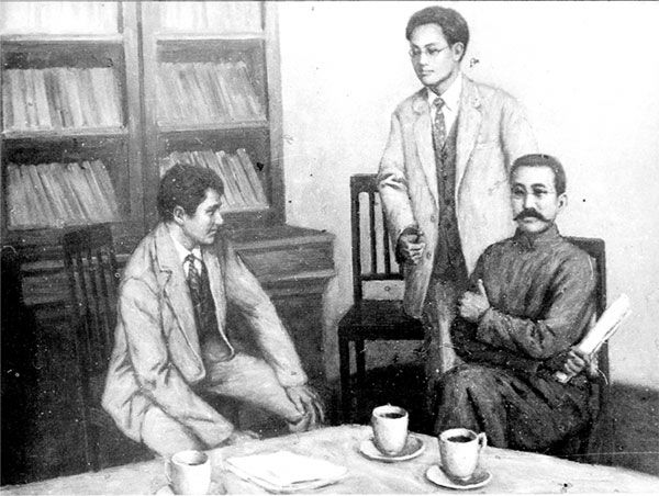 In 1920 Li Dazhao met comintern Russian agent Grigori Naumovich Voitinsky